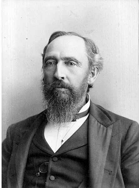 Caption on mount: Moore, Corner Third and Columbia Sts., Seattle, Wash. PH Coll 487.6 Subjects (LCTGM): Legislators--Washington (State); Lawyers--Washington (State); Business people--Washington (State) Subjects (LCSH): McGilvra, John J. (John Jay), 1827-1903; Government attorneys--Washington (State) This photo… …appears to be the basis for this engraving published 1891.